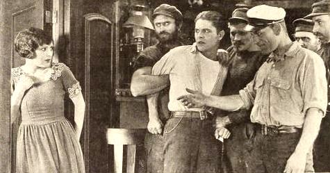 Still from the American film All the Brothers Were Valiant (1923) with Billie Dove, Malcolm McGregor, and Lon Chaney, on page 172 of the December 23, 1922 Exhibitor's Trade Review.